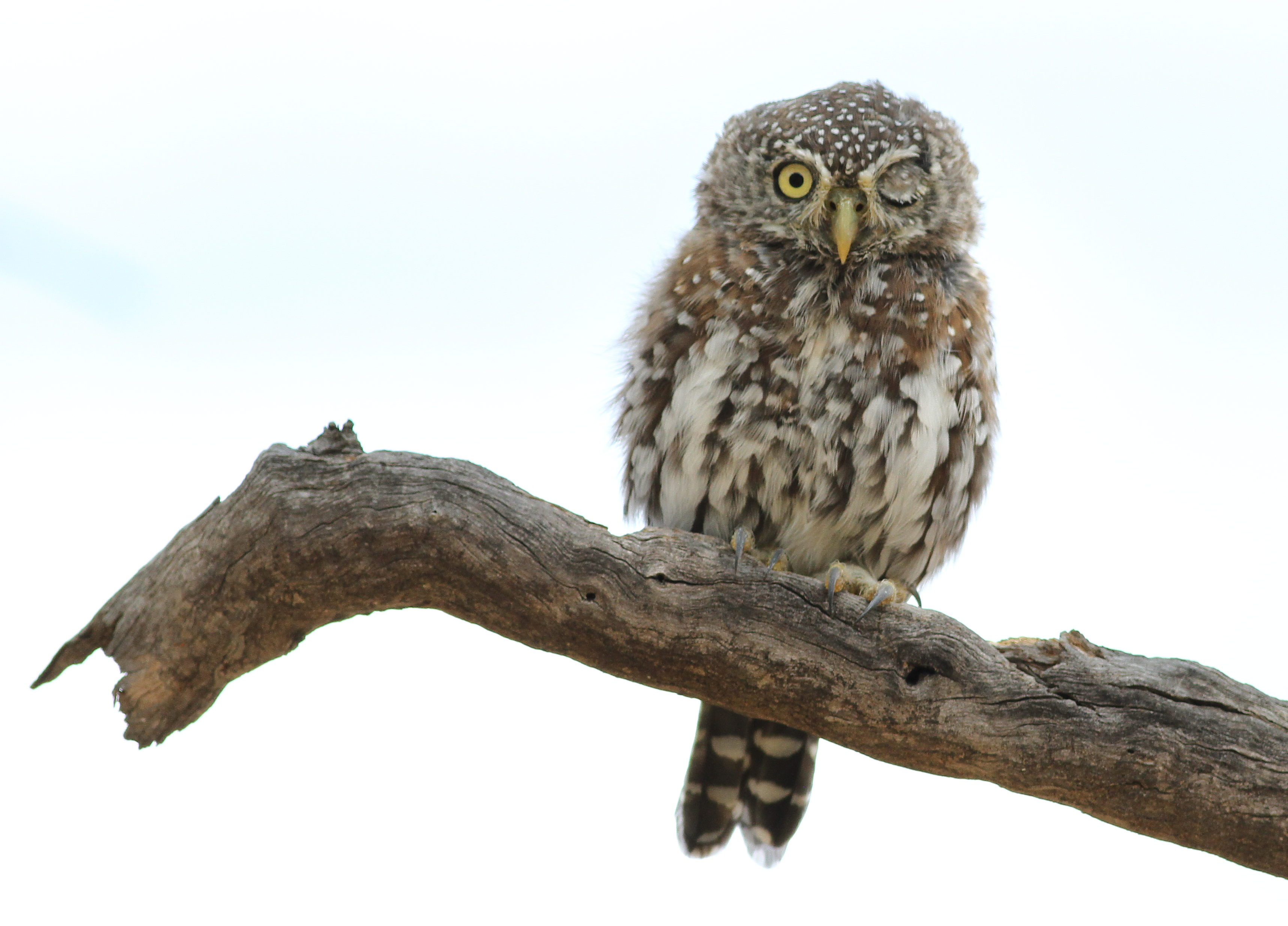 Pearl-spotted Owlet, Glaucidium perlatum, at Pilanesberg National Park, Northwest Province, South Africa